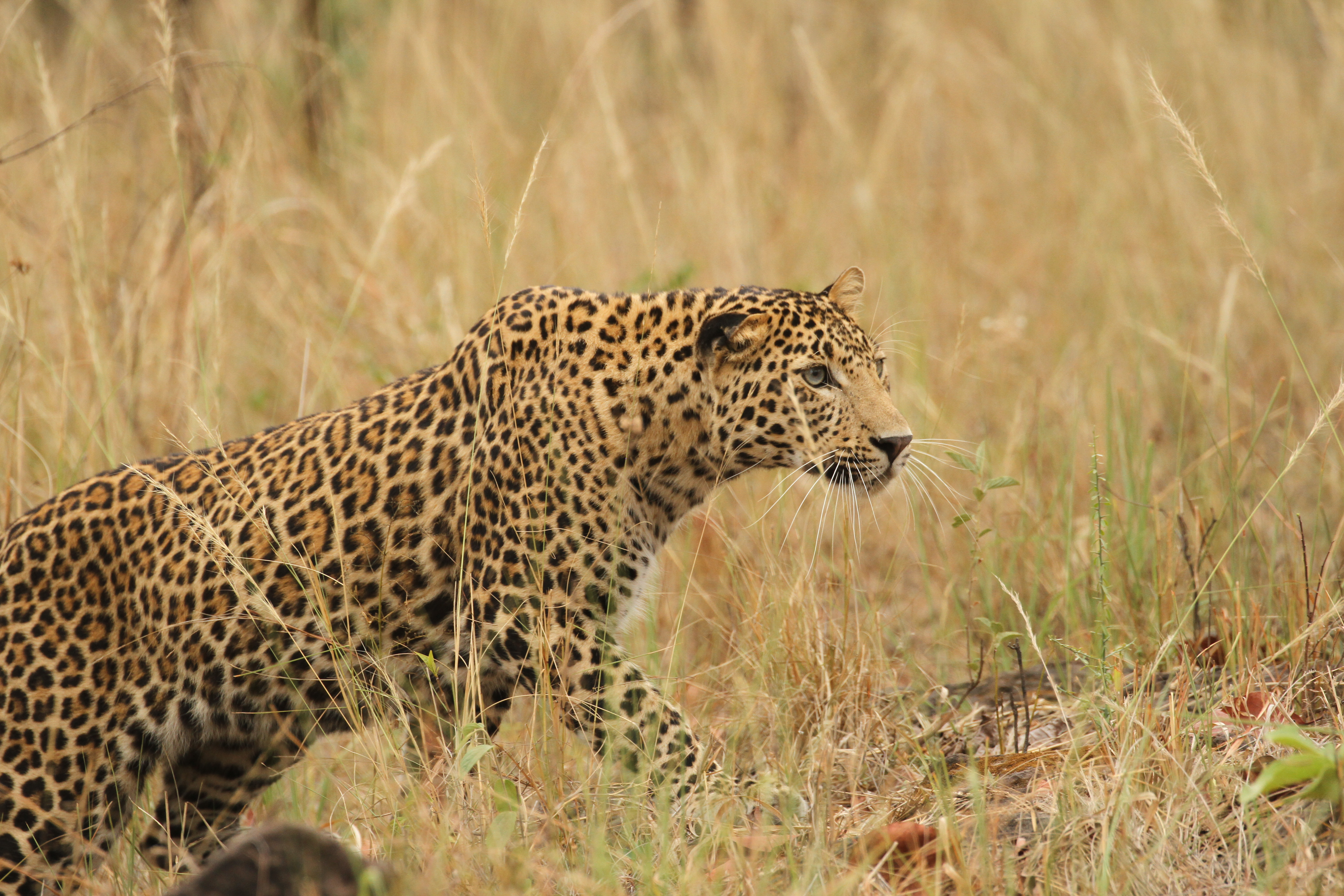 leopards from Central India